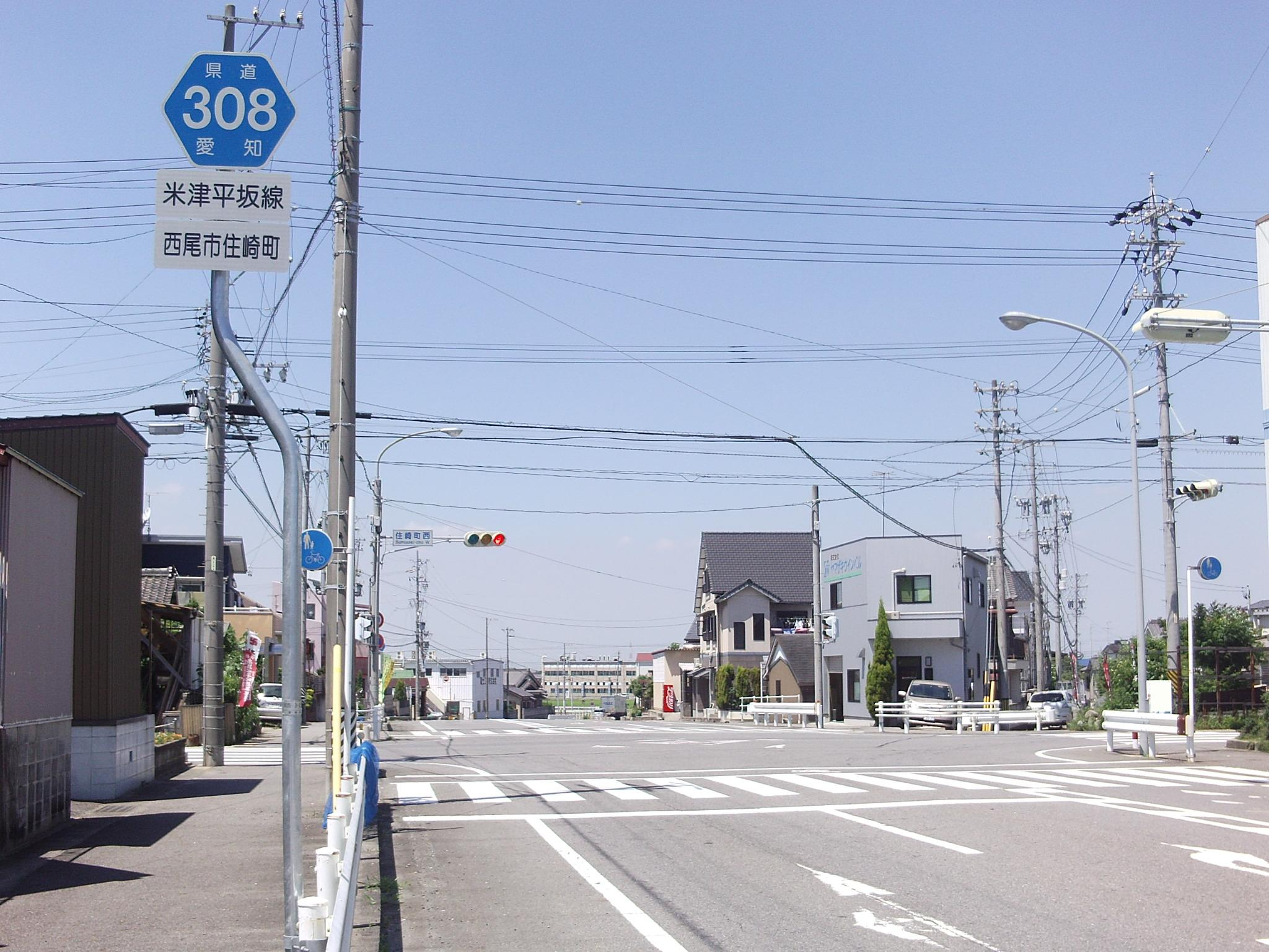 Aichi prefectural road No.308 in Sumisakicho, Nishio, Aichi.